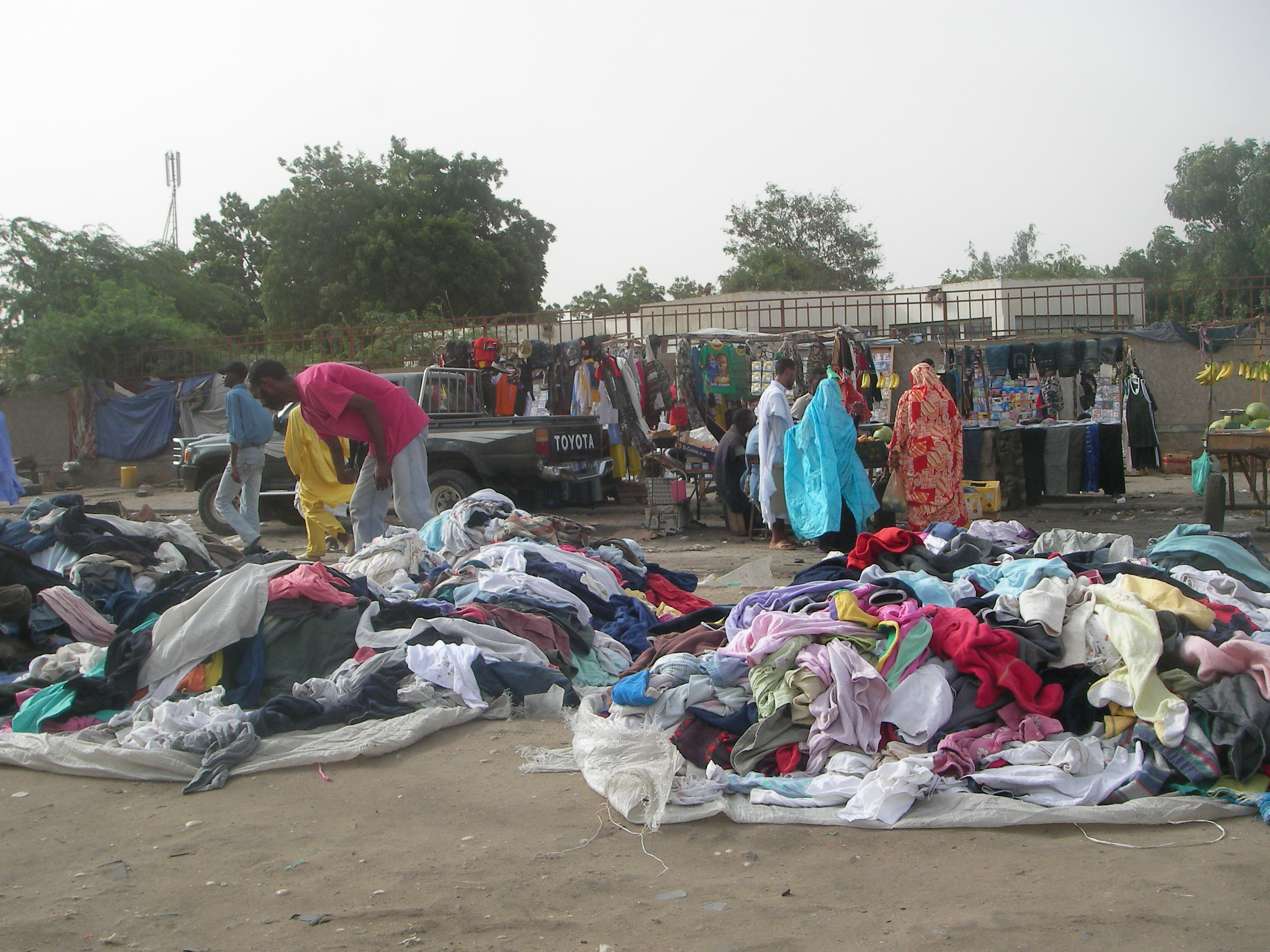 Street sellers in Nouakchott (Mauritania)